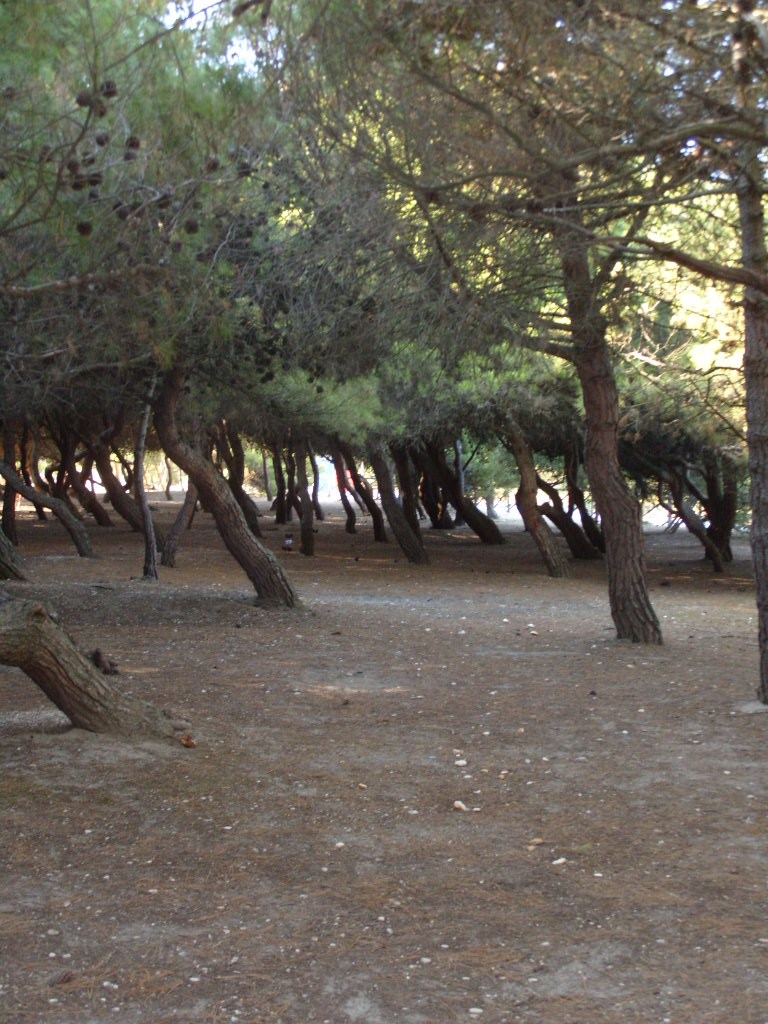 Pinewood at Porto Sant'Elpidio